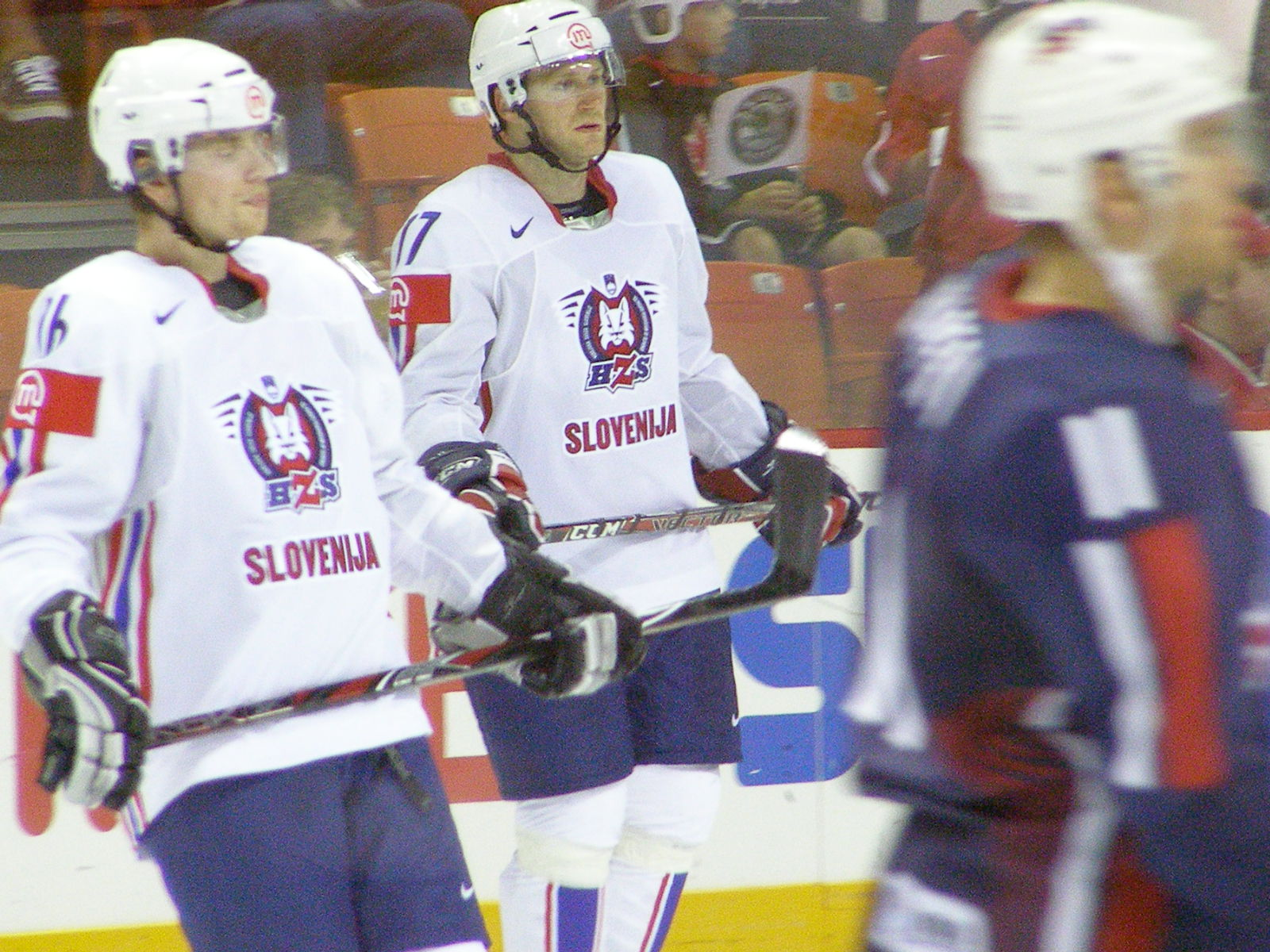 Slovenia VS USA (IIHF World Hockey Championship in Halifax NS, May 4 2008)